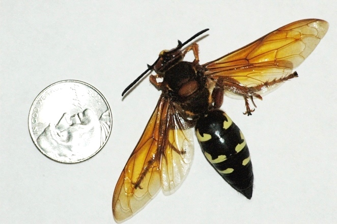 Adult female Eastern Cicada Killer Wasp (a.k.a. Sand Hornet) Size comparison next to a nickel.